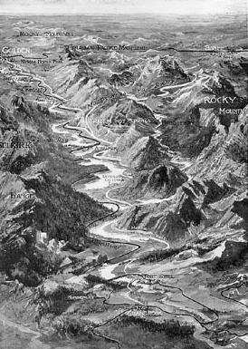 Scenic birds-eye view of Columbia and Kootenay valleys, 1913.